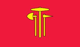 Flag of Bochnia (town in Poland).